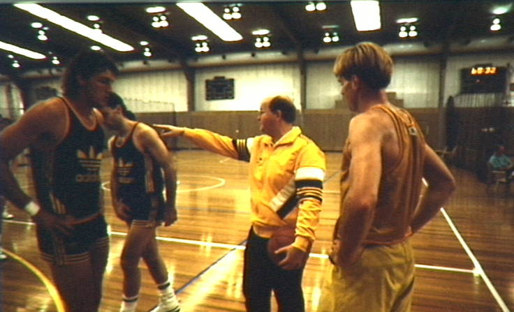 Australian Institute of Sport Men's Coach Patrick Hunt in 1989